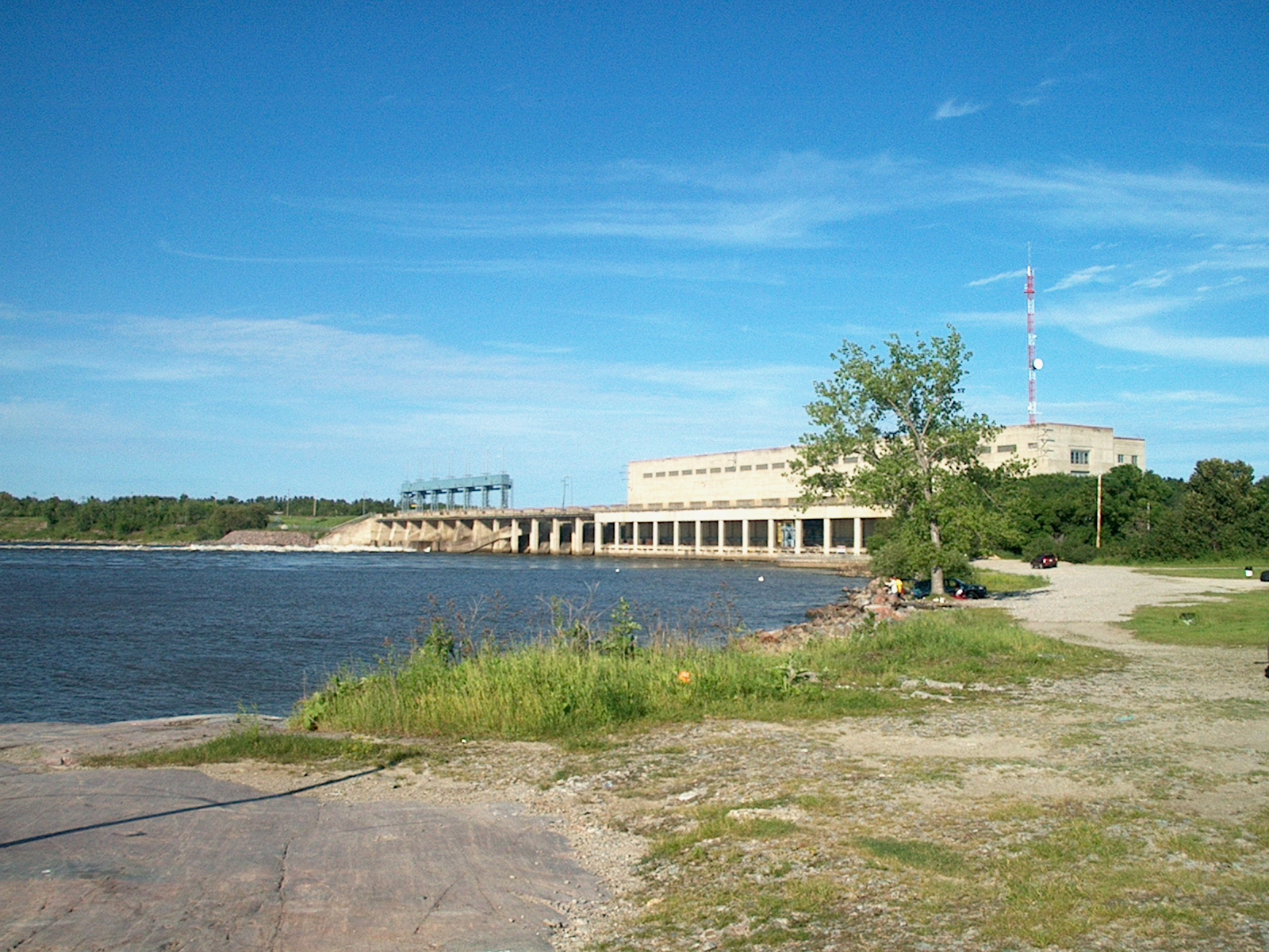 Manitoba Hydro Generating station on Winnipeg River at Pine Falls.